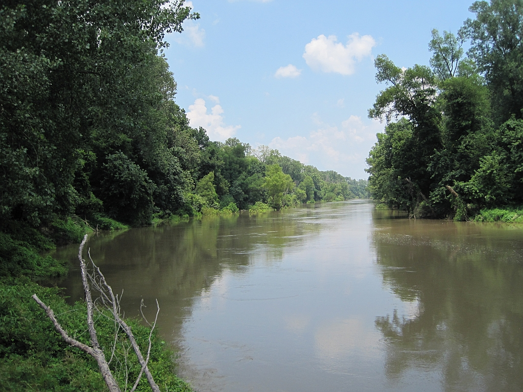 Reverie, Tennessee. TN/AR stateline at the old course of the Mississippi River. View south